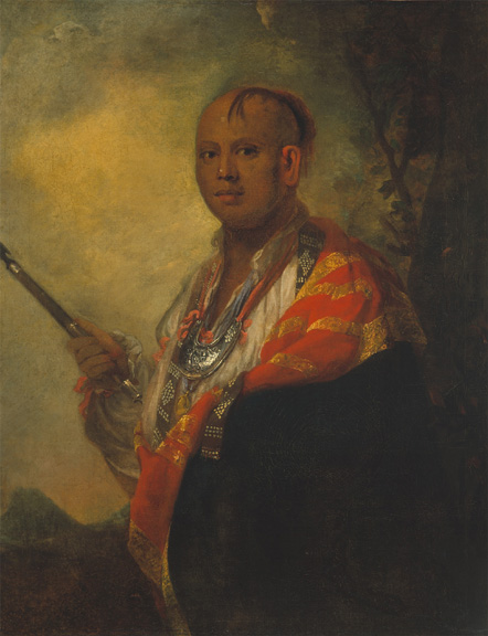 Portrait of Ostenaco, 1762, by Sir Joshua Reynolds. Currently on display at the Gilcrease Museum in Tulsa, Oklahoma.